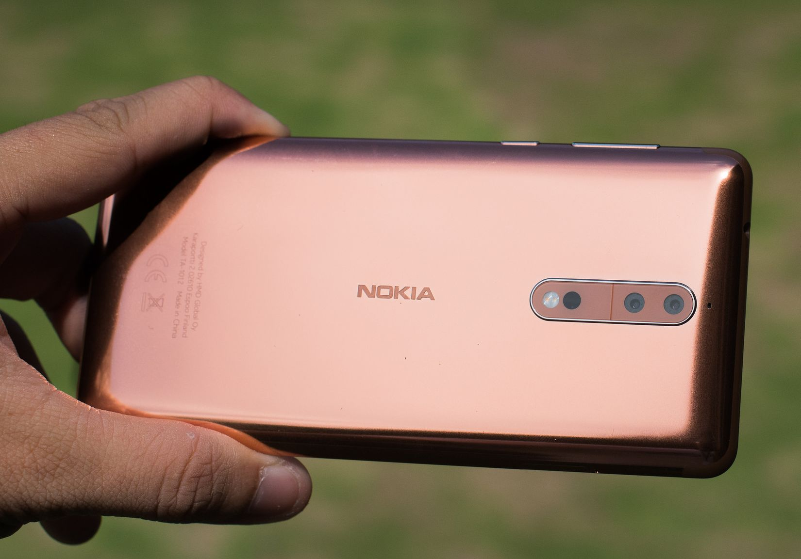 Nokia 8